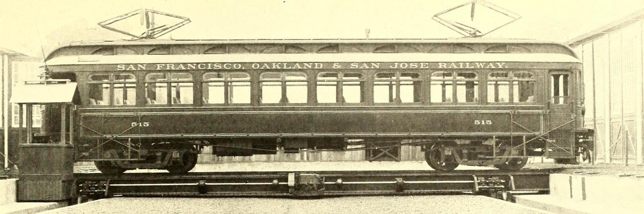 Title: Electric railway journal Year: 1908 (1900s) Authors: Subjects: Electric railroads Publisher: (New York) McGraw Hill Pub. Co Text Appearing Before Image: Plate XXXVII Text Appearing After Image: Oakland Electric Railways—Subway Under Southern Pacific Railway Plate XXXVIII